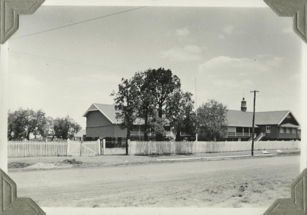 School buildings Dalby circa 1935, Dalby State School with its "high top", prior to the establishment of Dalby State High School in the 1950s. These buildings are still on the site as at 2018.